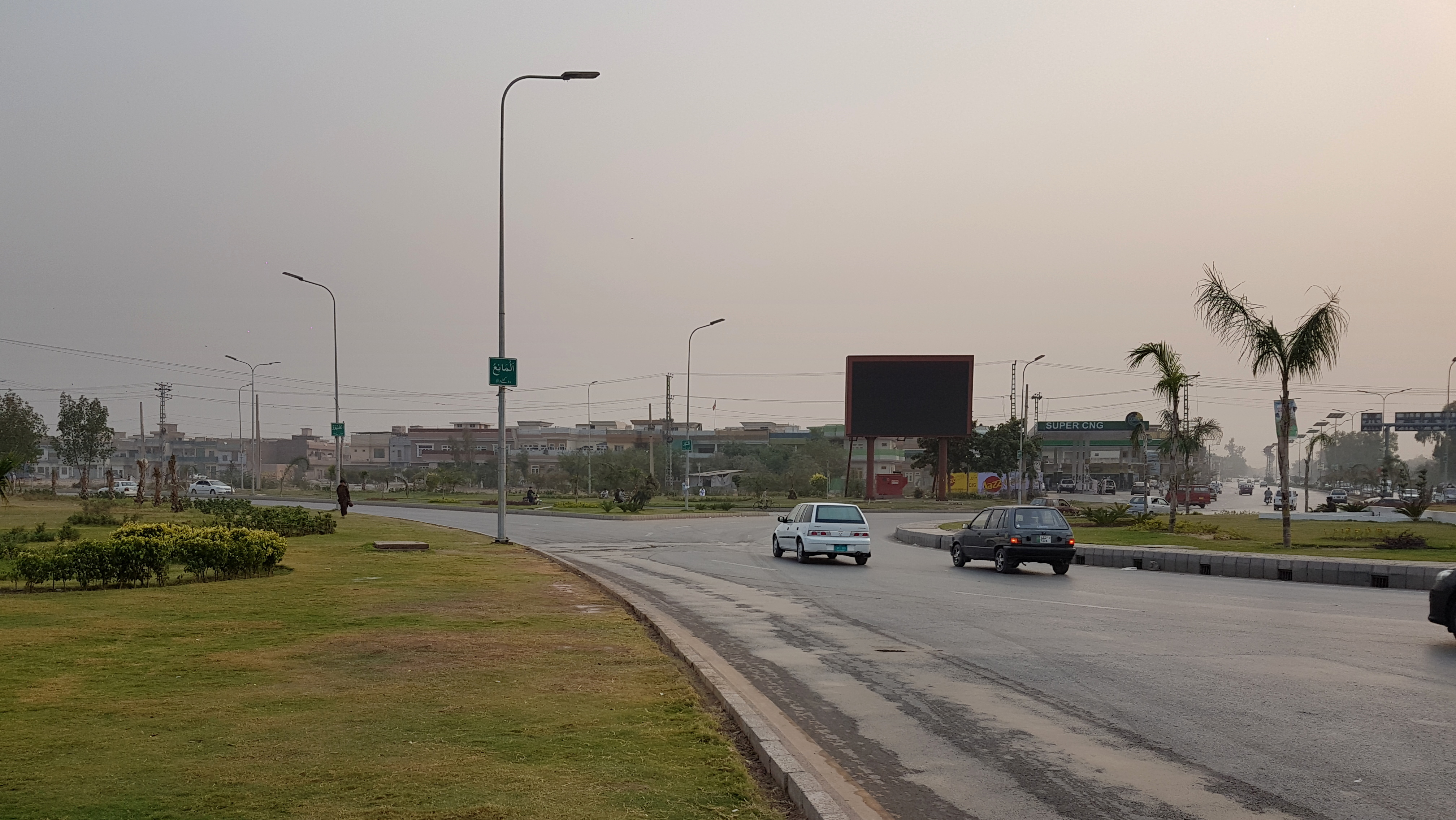 Hayatabad, Peshawar